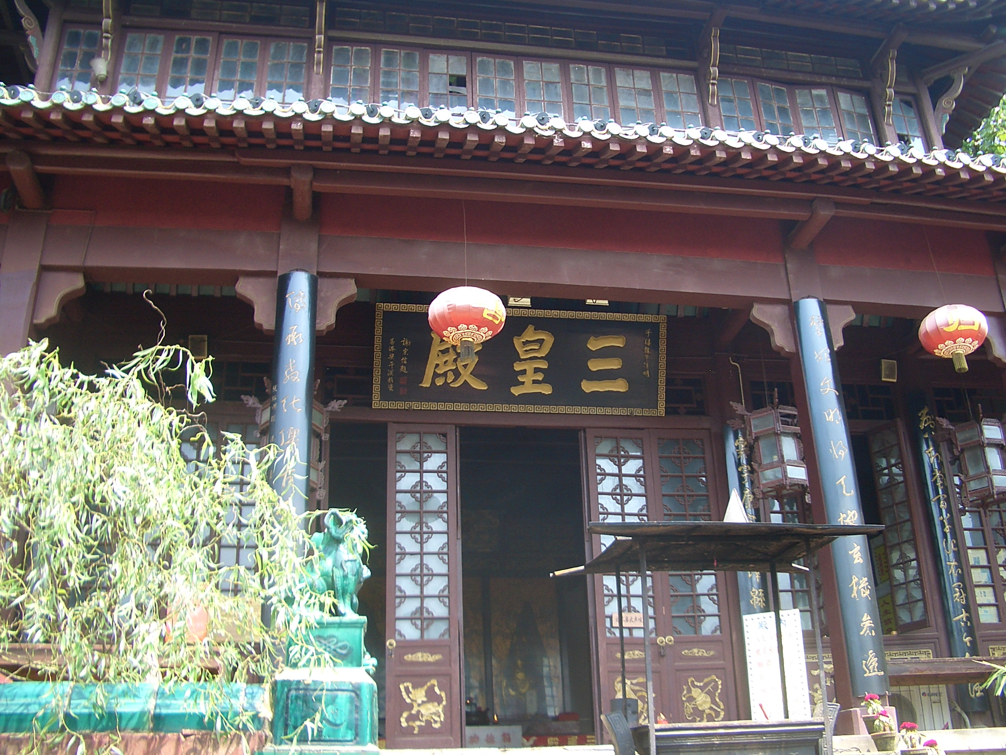 Hall of the Three August Ones (三皇殿, San Huang Dian) in Changchun Temple, Wuhan.